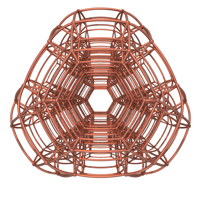 Perspective projection of Omnitruncated Hexateron (edge wireframe)